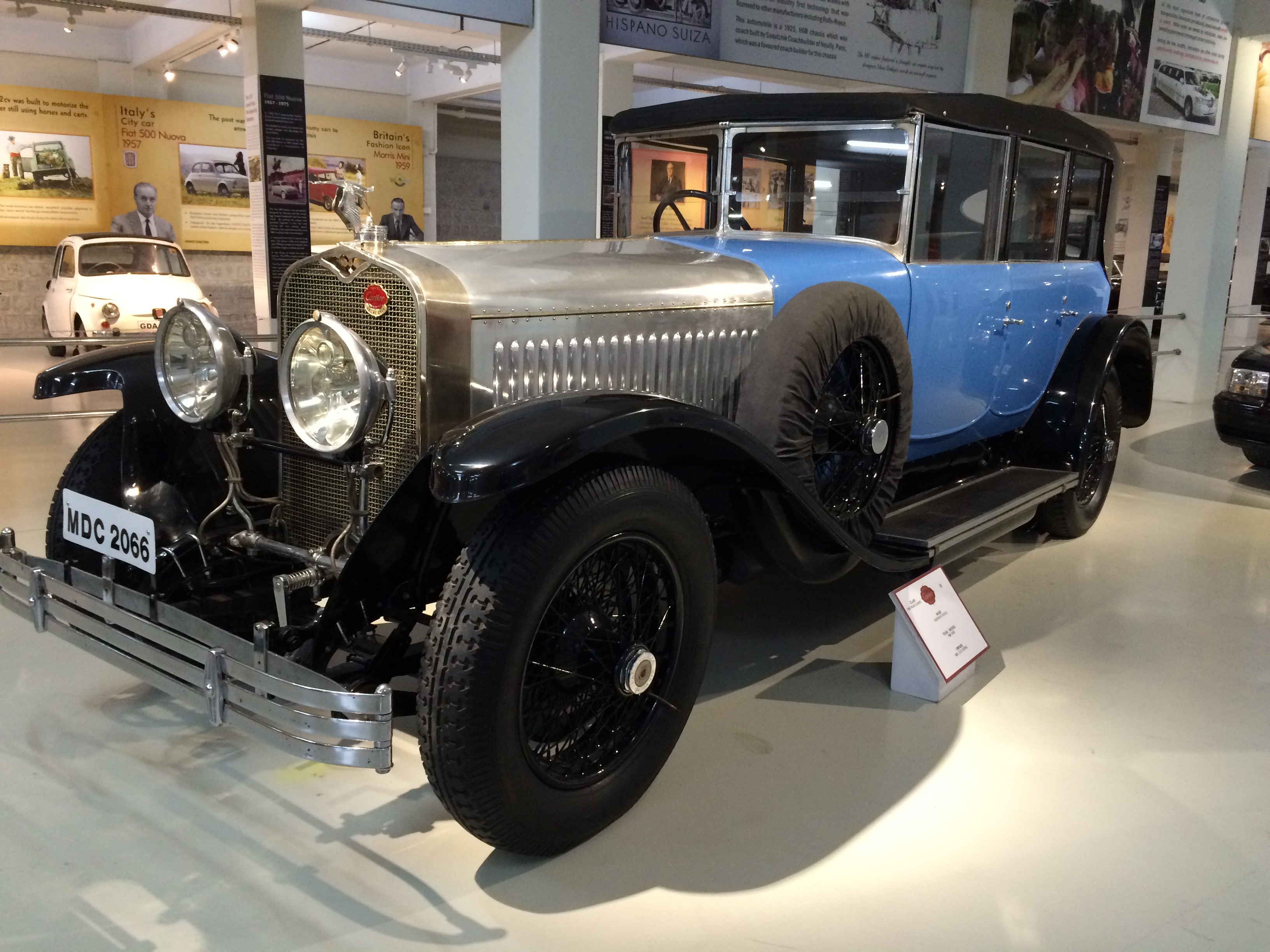 A 1920's Hispano-Suiza H6 B, at GeDee Car Museum, Coimbatore, India